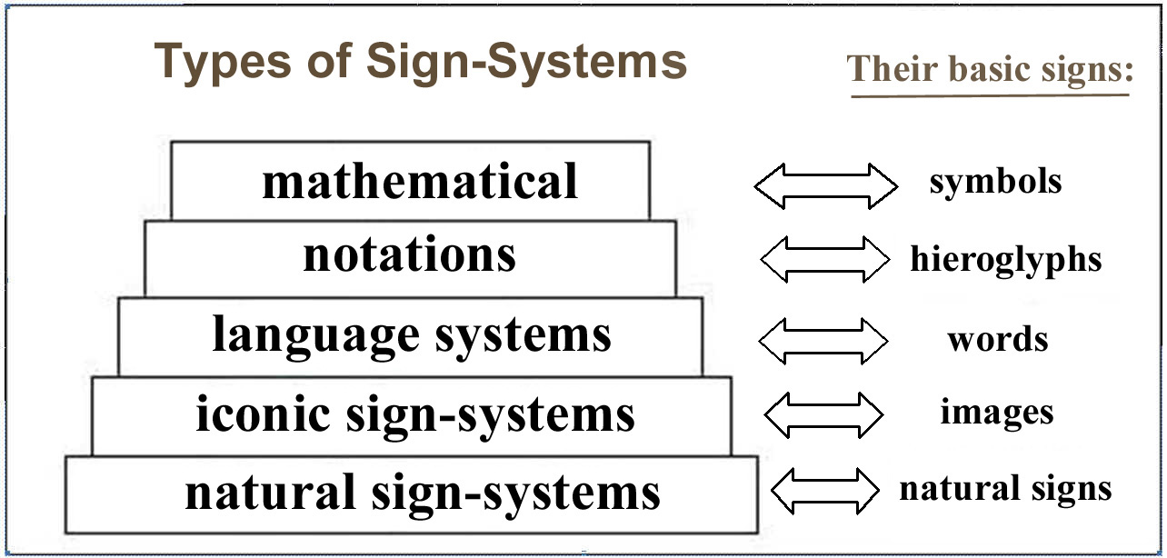 Classification of types of sign systems offered by Solomonick